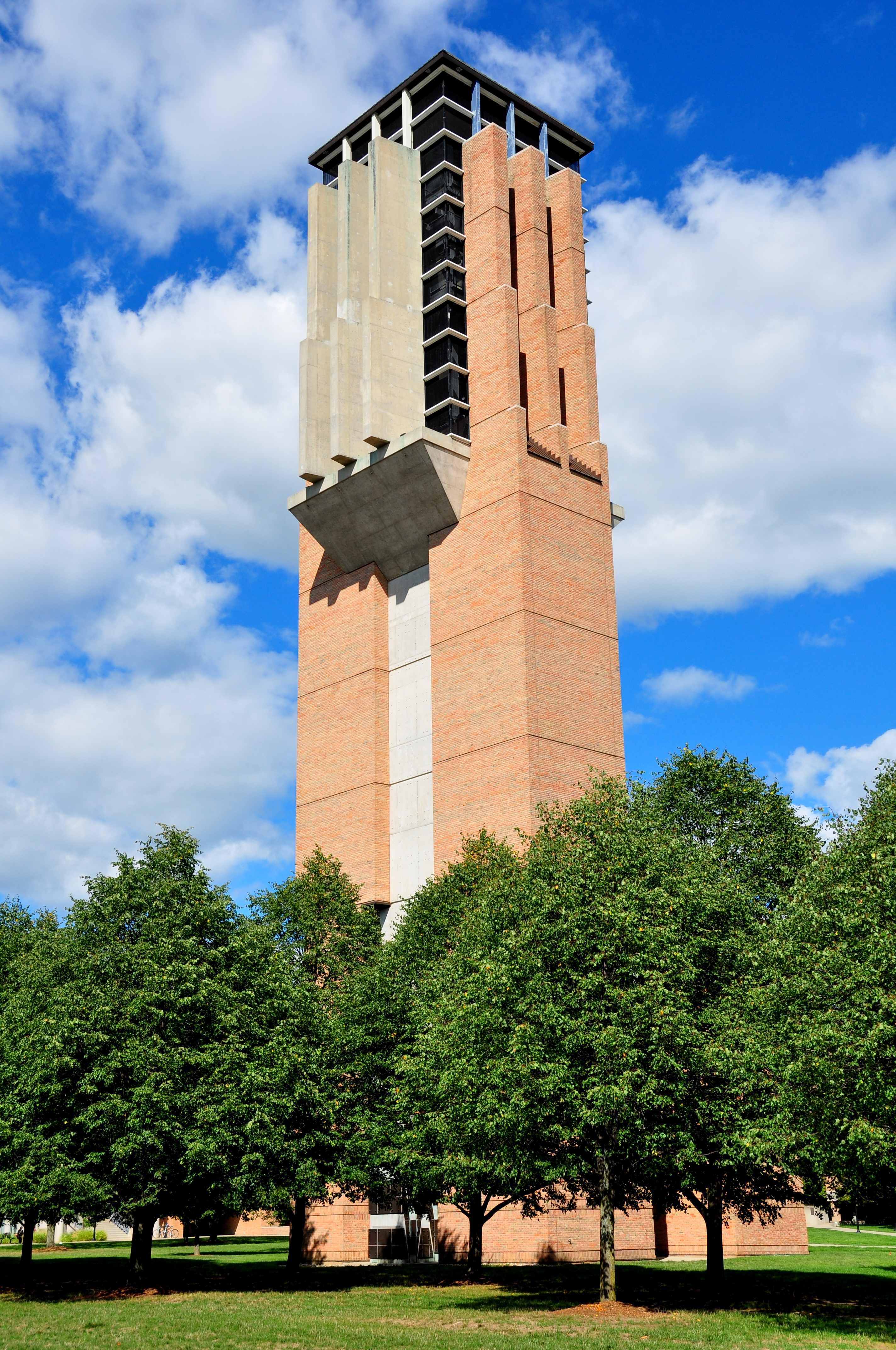 University of Michigan Lurie Tower on North Campus